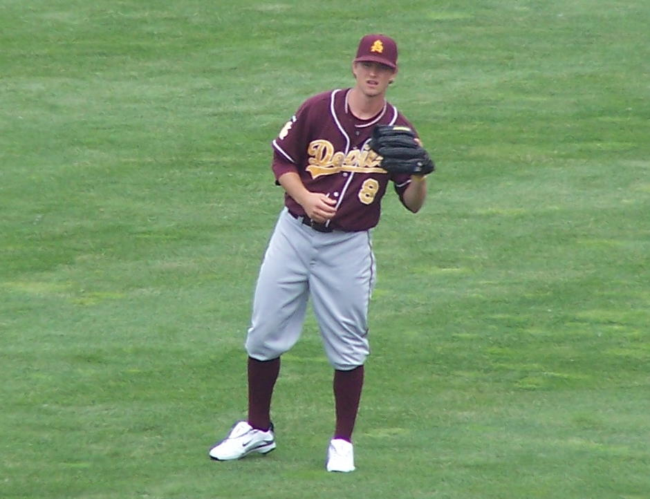 Mike Leake plays catch before game three of the 2009 College World Series